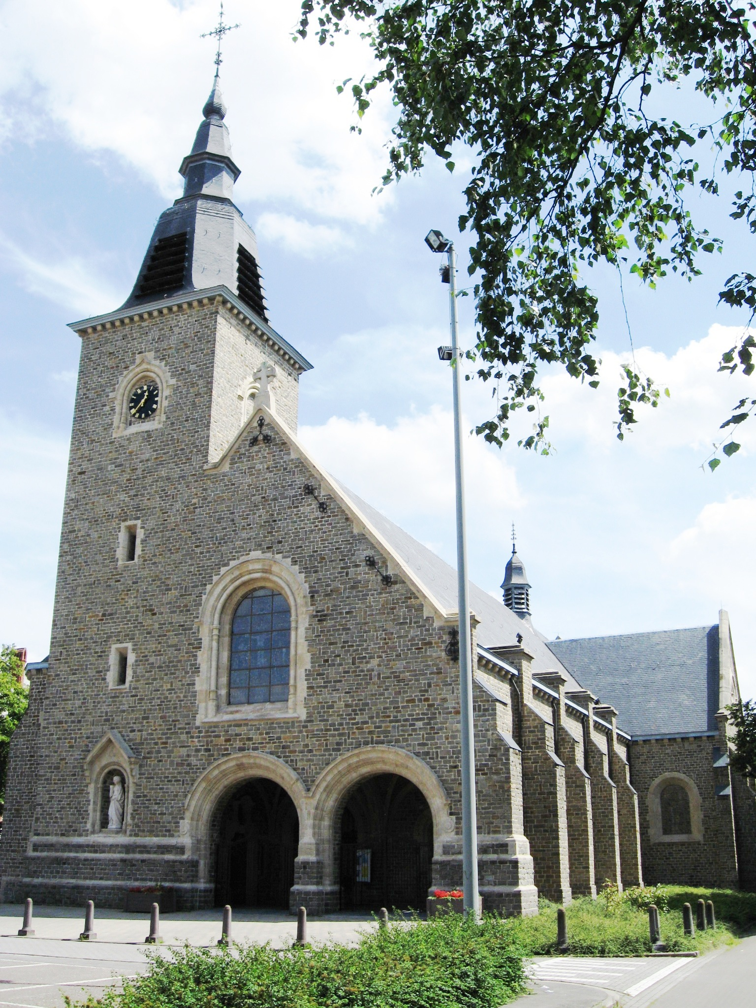 Mine cathedral of the Sacred Heart in Genk (Winterslag), Limburg, Belgium